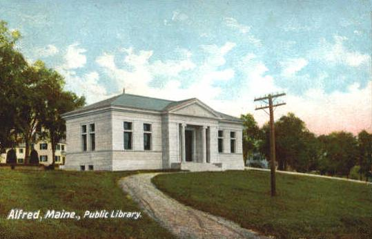 Parsons Memorial Library, Alfred, ME; from a 1906 postcard. It was donated in 1905 by George and Edwin Parsons.